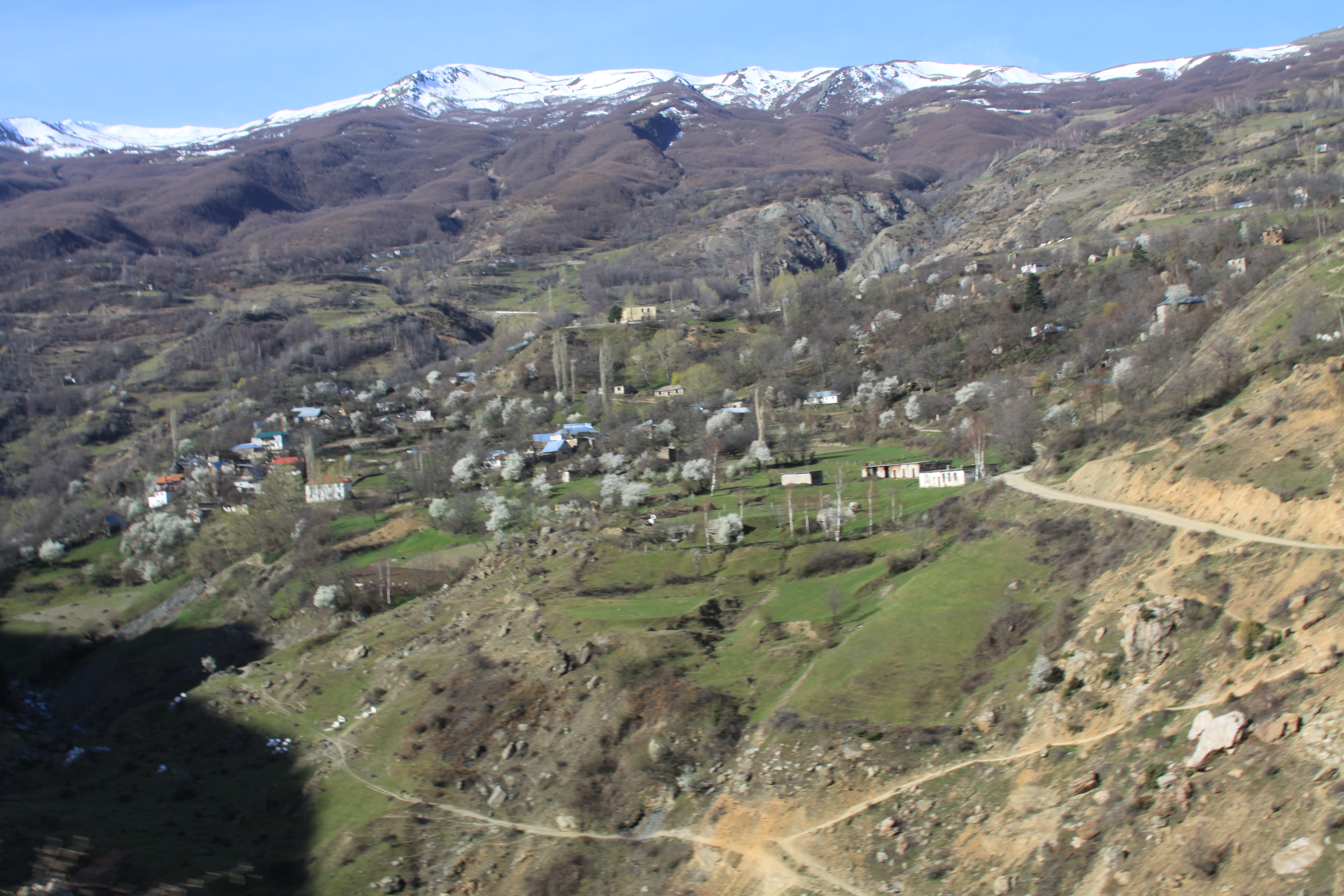 Ky fshat ndodhet ndodhet ne Komunen Topojan, Kukes